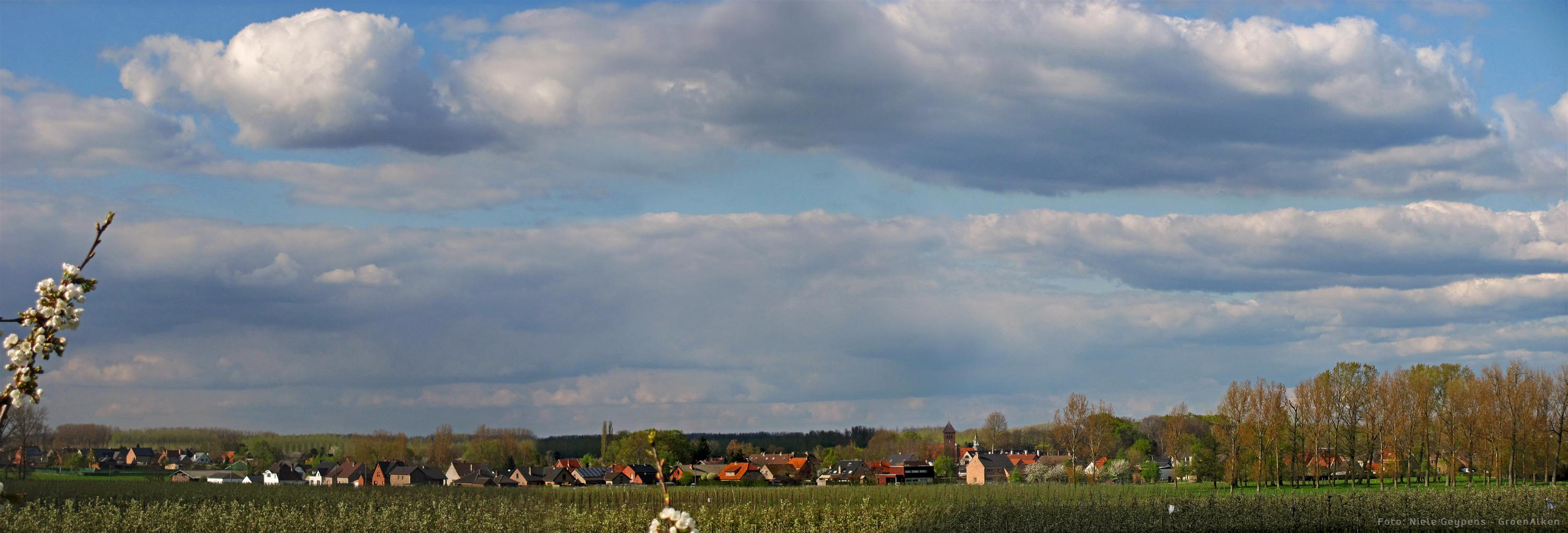 Panorama of the village of Terkoest in Alken. Originally made by Niele Geypens for use on Not for use by political parties, campaigns, organisations or associated movements other than the Belgian political party 'Groen'.